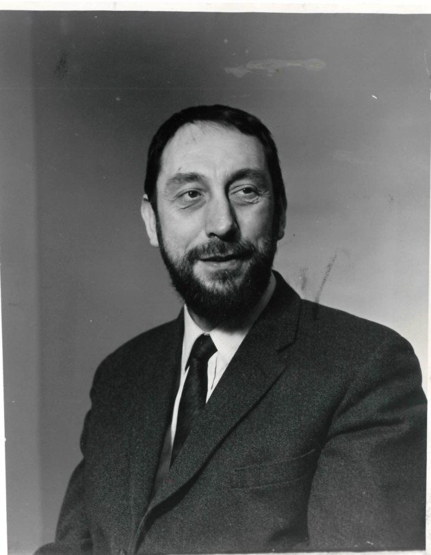 Portrait of David Eyre Percival